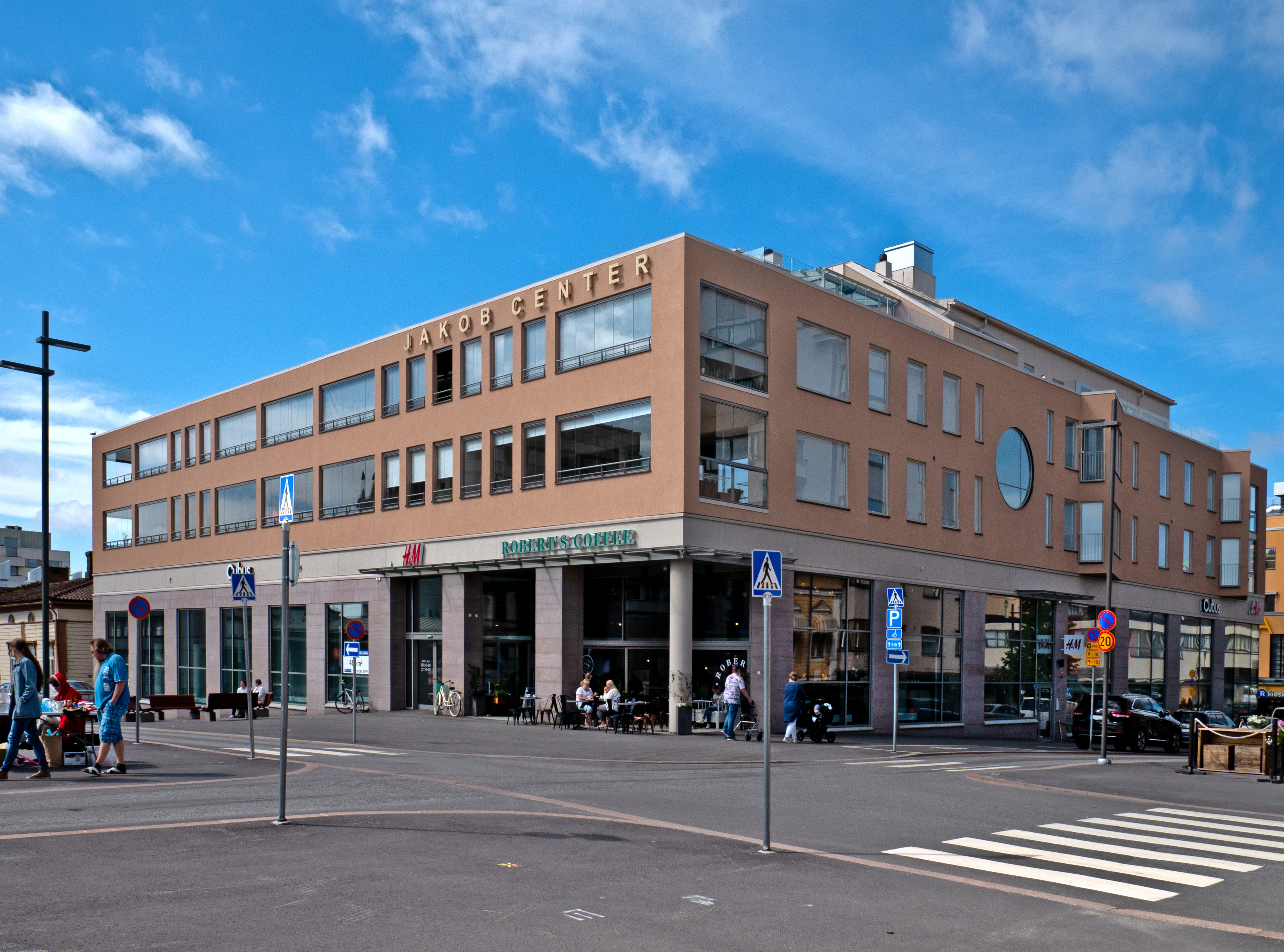 Jakob Center -shopping mall in Jakobstad, Finland.